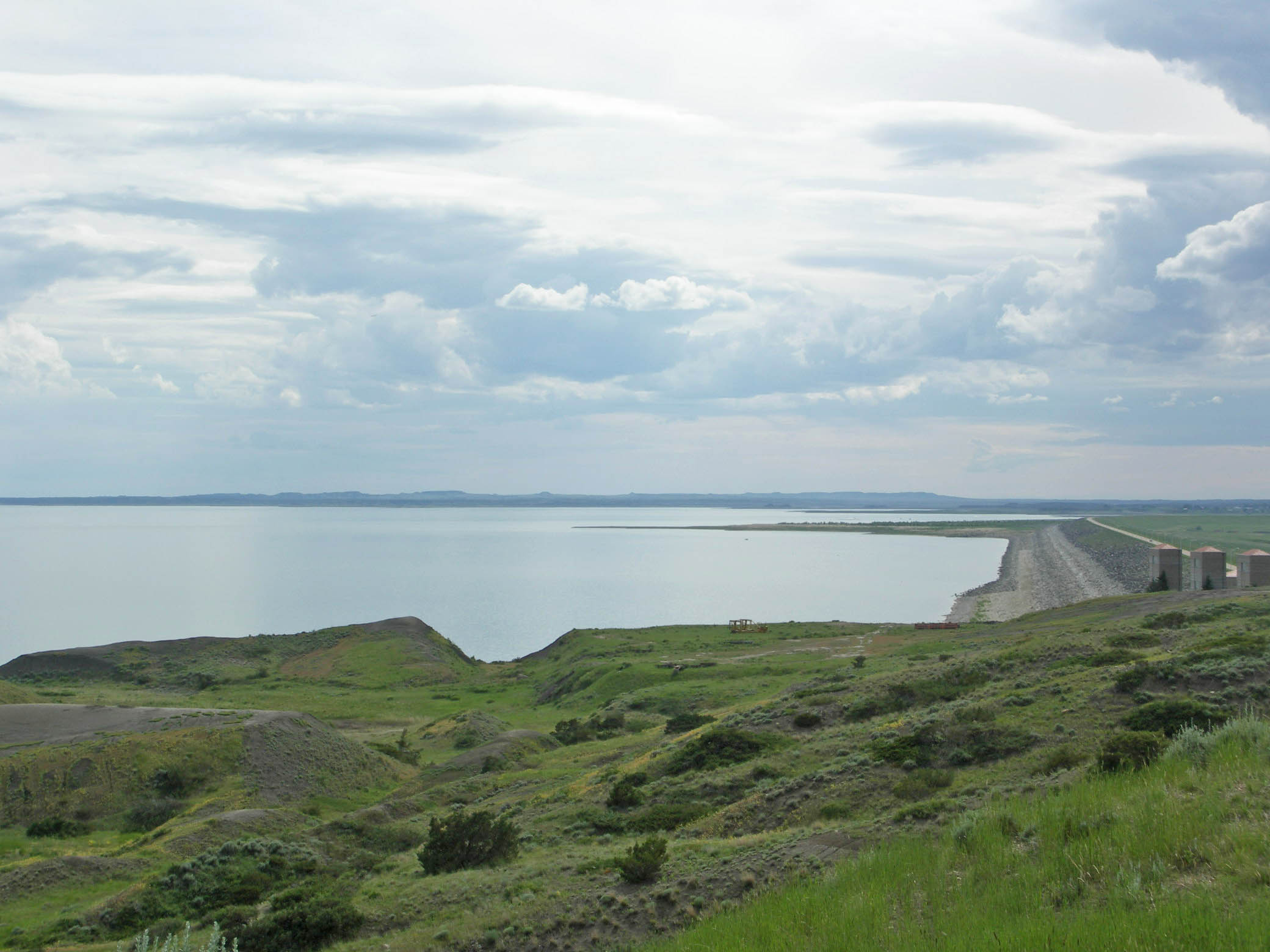 Fort Peck Lake and Fort Peck Dam — in Valley County, northeast Montana Viewed from the Lewis and Clark Overlook. The fifth largest reservoir in the U.S.